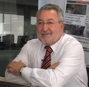 Spanish politician Bernat Soria.